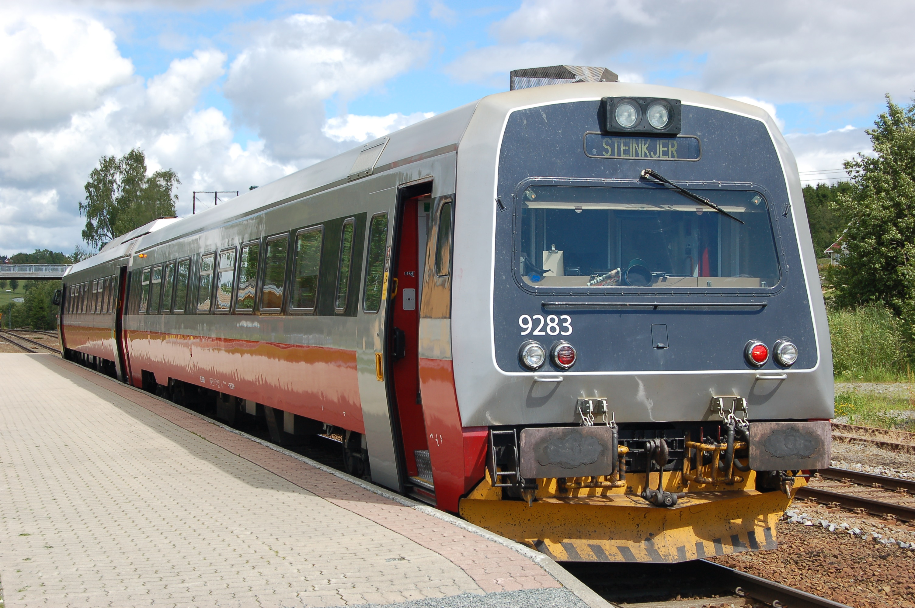 Norges Statsbaner type 92 diesel multiple unit at Åsen Station, Norway.